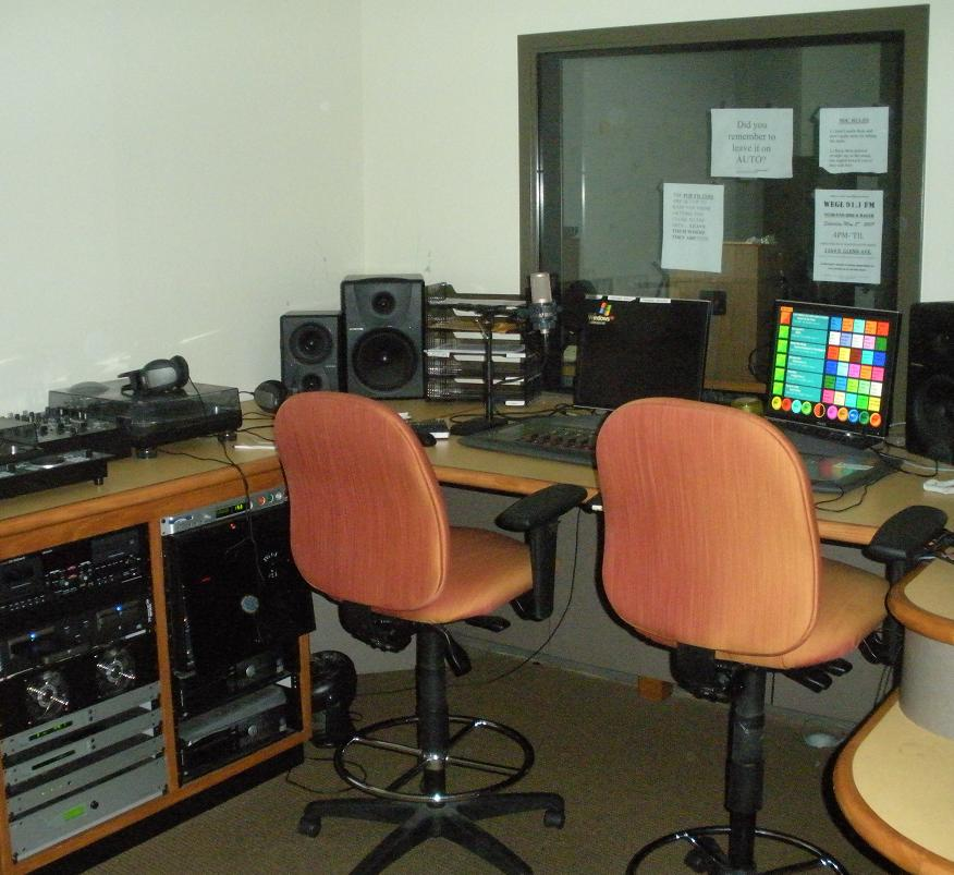 This is a photograph of the new WEGL studios in the Auburn University Student Center.